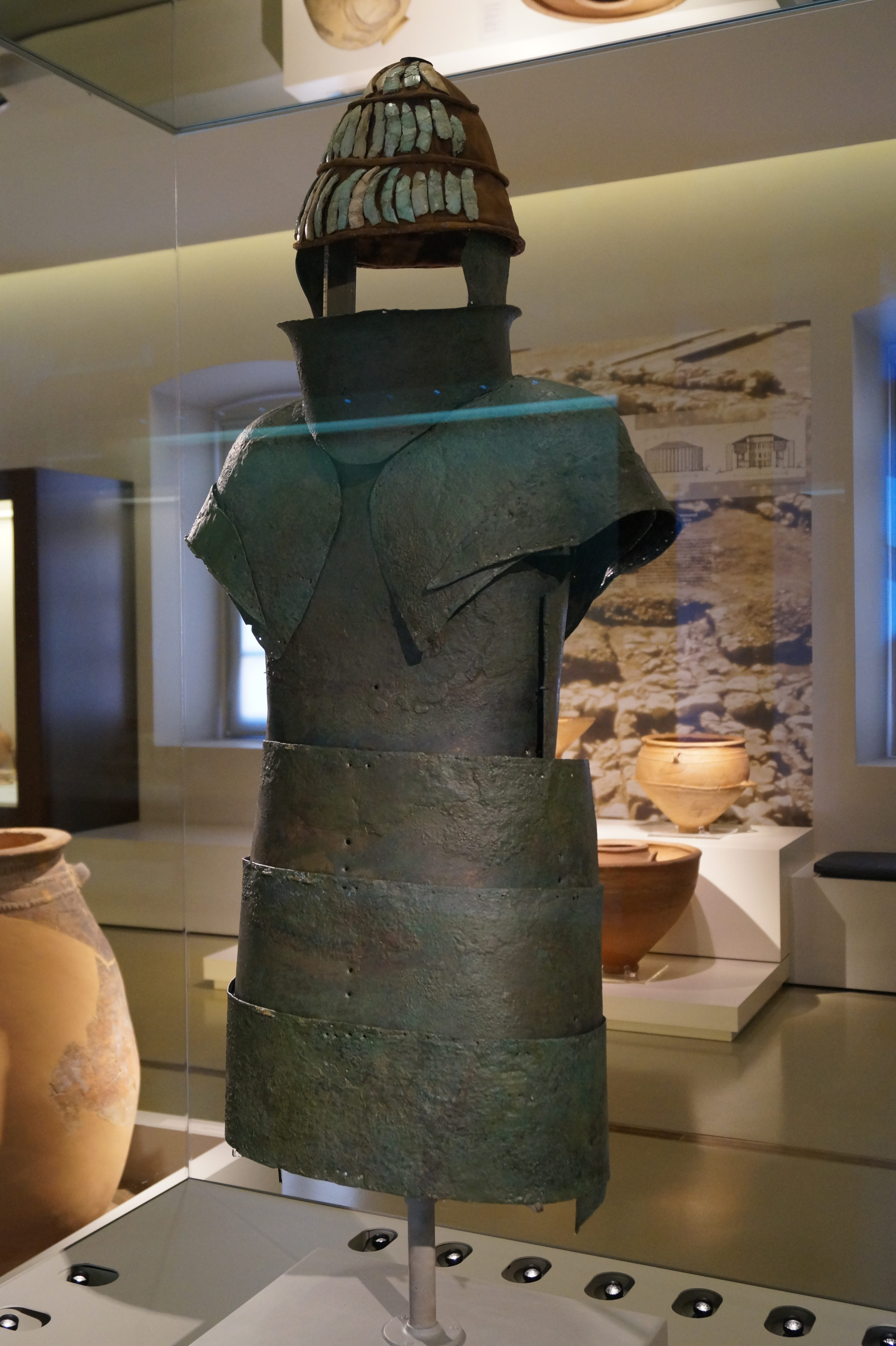 Archaeological Museum of Nafplio: Front view of Mycenaen armour and boar's tusk helmet from chamber tomb 12 of Dendra cementery (end of 15th century BC).